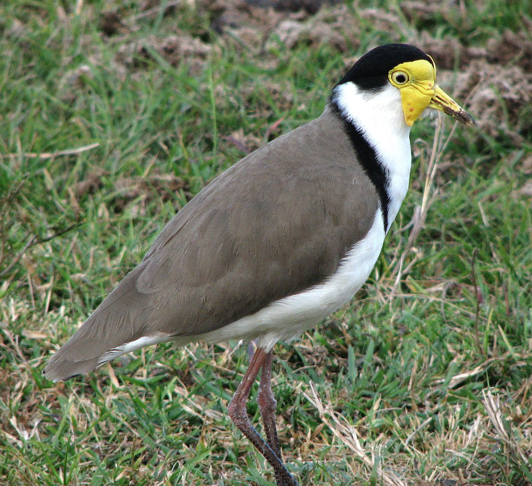 Vanellus miles (Masked lapwing) in the wild in Queensland Australia